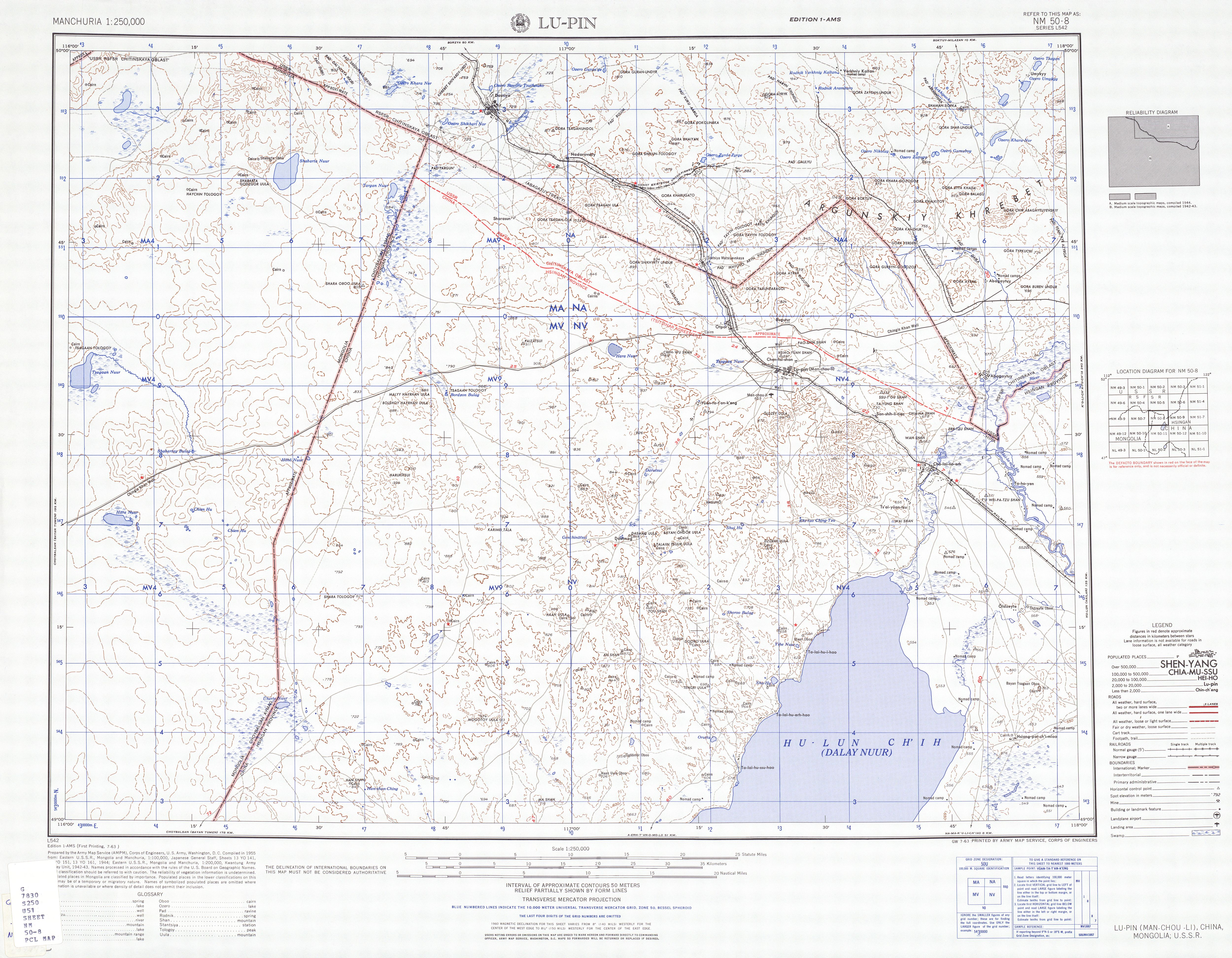 Map of Manzhouli (Man-chou-li, Lu-pin) area, Inner Mongolia